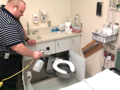 Nonflammable vapor of Alcohol and CO2 used to sanitize swing out toilet in exam room in a hospital ER.